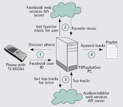 Whothat_esquema